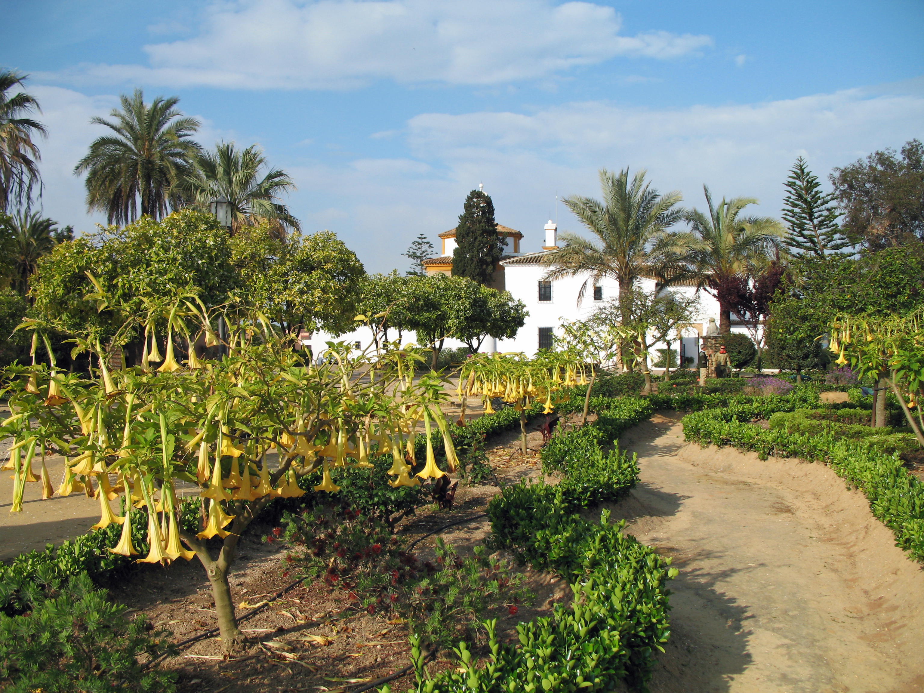 Palos de la Frontera (Huelva, Spain): monastery of Santa María de la Rábida - the garden